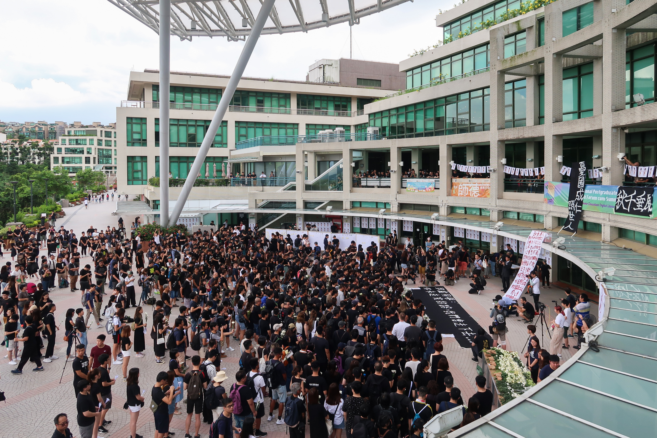 Memorial for Lo Hiu-yan in EDUHK